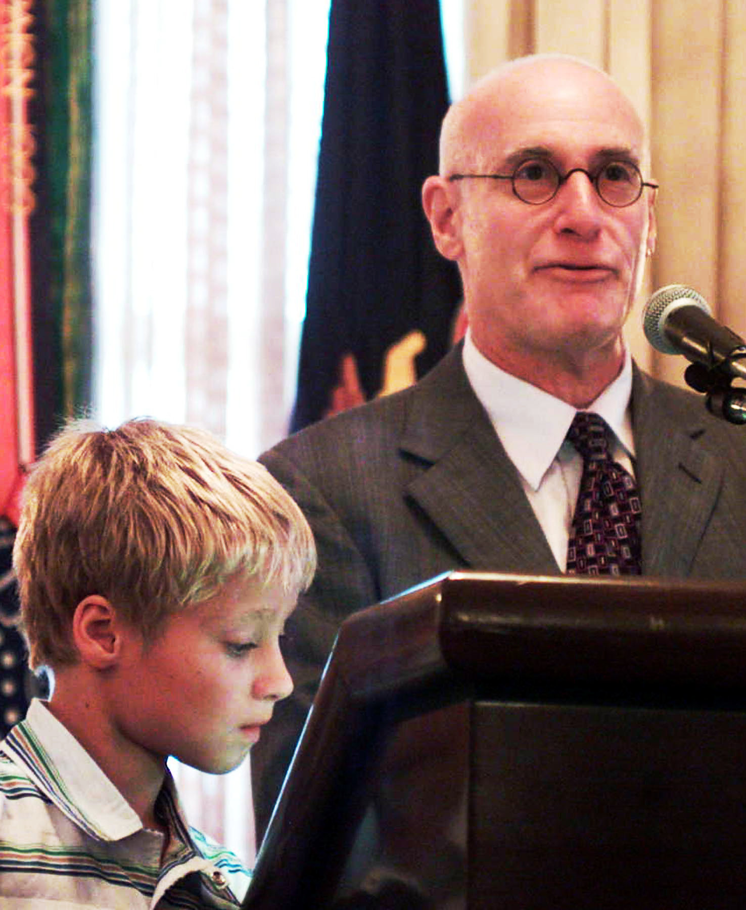 Michael Weisskopf comments on receiving the Fourth Estate Award from Army Public Affairs as his 11-year-old son, Skyler, checks out the podium.